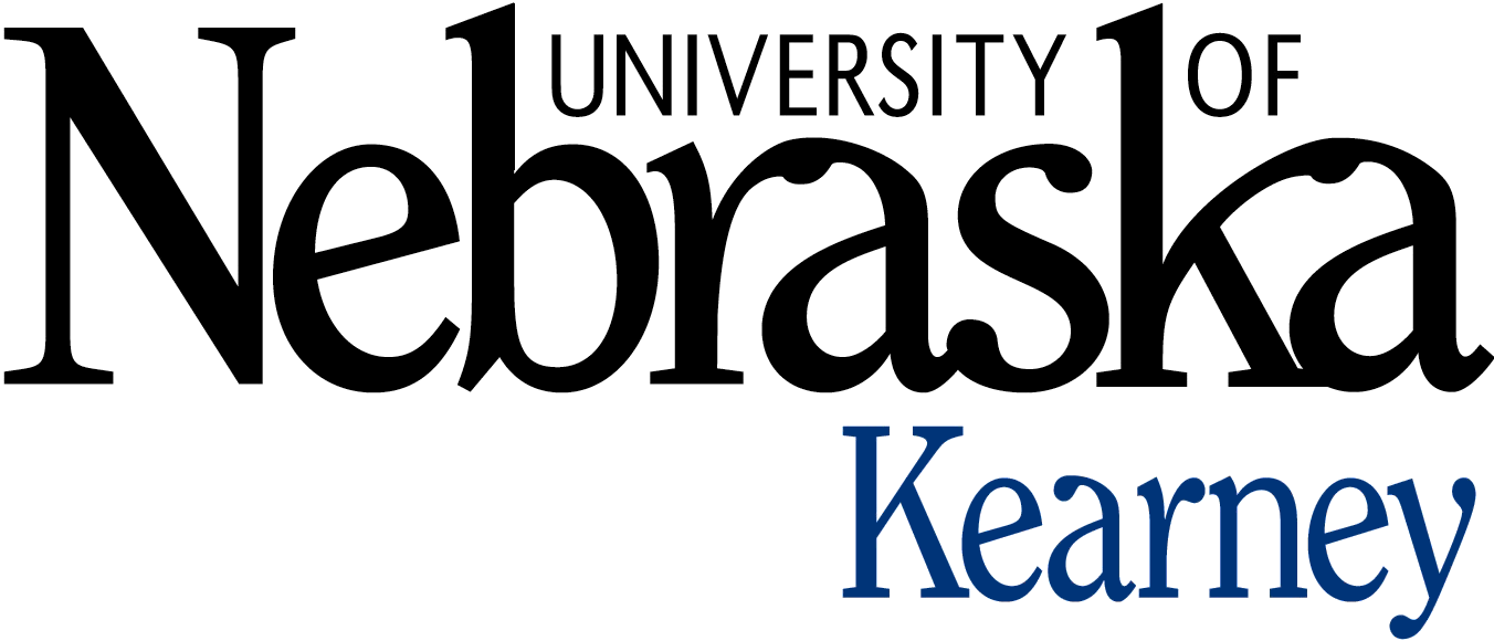 Logo for the University of Nebraska at Kearney.